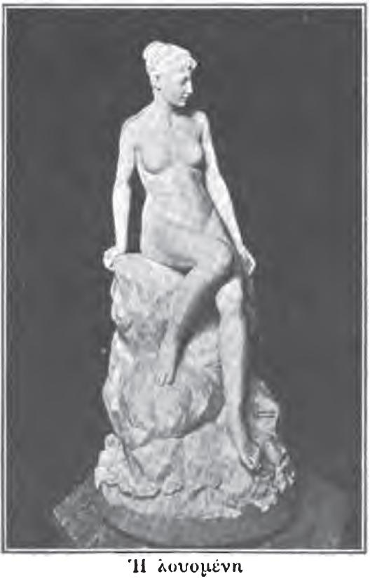 Hestia (1876) Author: Diomedes, Paulos Subject: Greek literature, Modern; Greek periodicals Publisher: [Athēnēsi : s.n. Year: 1894 Possible copyright status: NOT_IN_COPYRIGHT Language: Greek Digitizing sponsor: Google Book from the collections of: Harvard University Collection: americana]